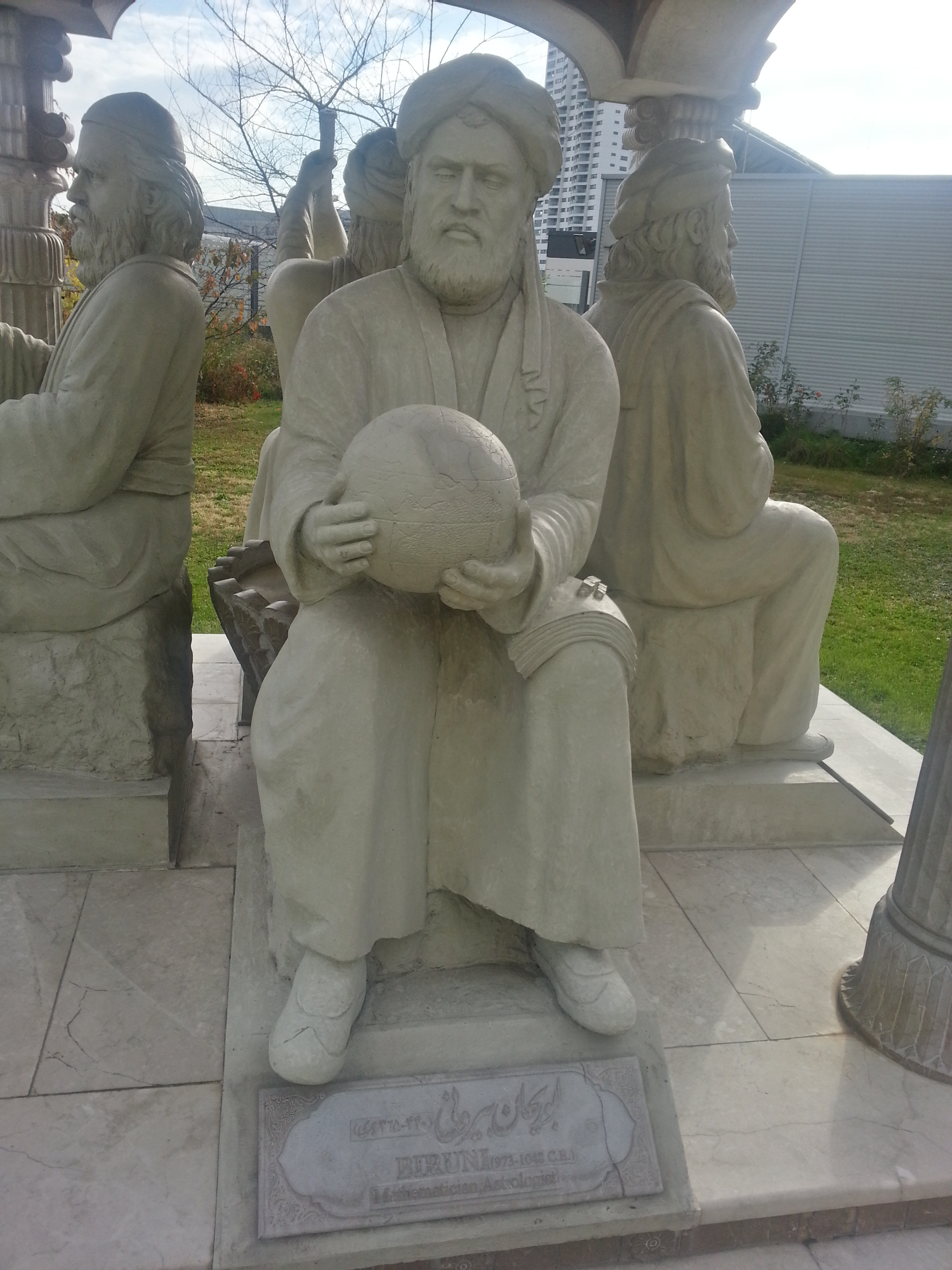 Persian Scholar Pavilion in Vienna International Centre donated by Iran. Jun 2009